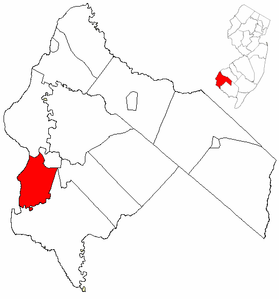 Map of Salem County highlighting Elsinboro Township